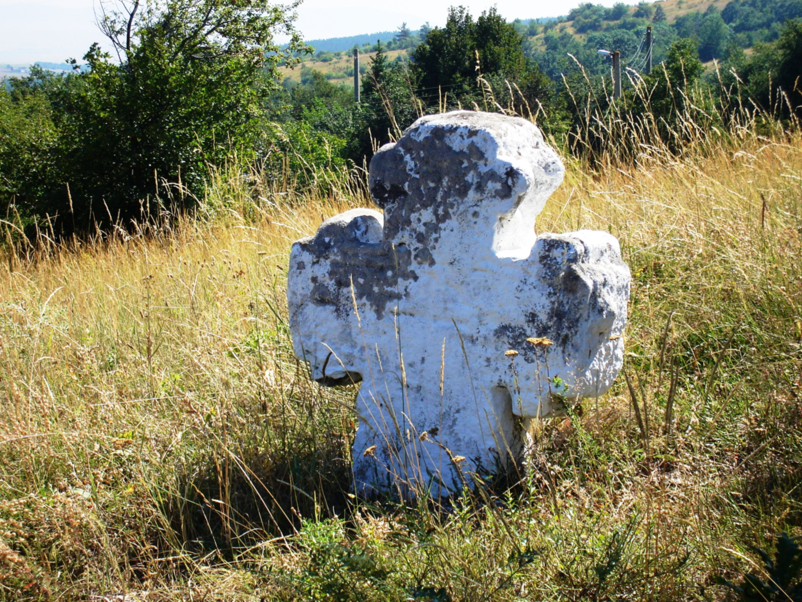 The stone cross beyond village Gigintsi